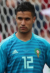 Portugal-Morocco match, 2018 FIFA World Cup